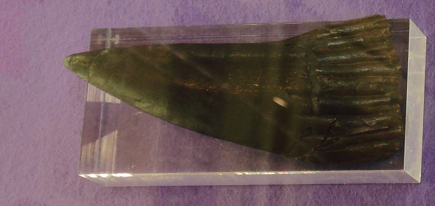 Fossil tooth of Rhizodus hibberti.